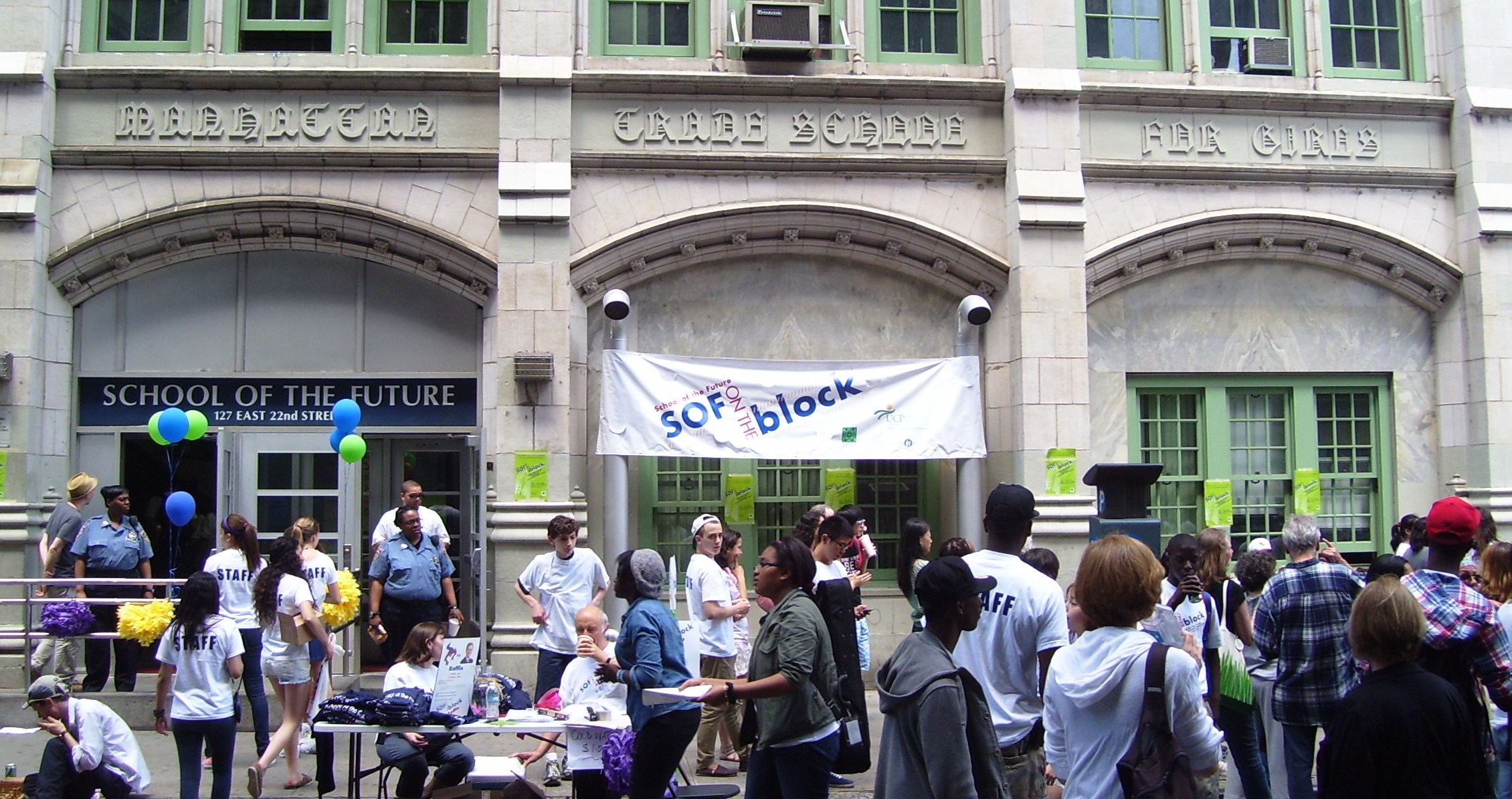 The School of the Future, originally the Manhattan Trade School for Girls, and later the Mabel Dean Bacon Vocational High School, at 127-129 East 22nd Street on the corner of Lexington Avenue in the Gramercy Park neighborhood of Manhattan, New York City, was built in 1915 and was designed by C.B.J. Snyder. (Source: AIA Guide to NYC (4th ed.)) This picture was taken during the school's fund-raising block party.